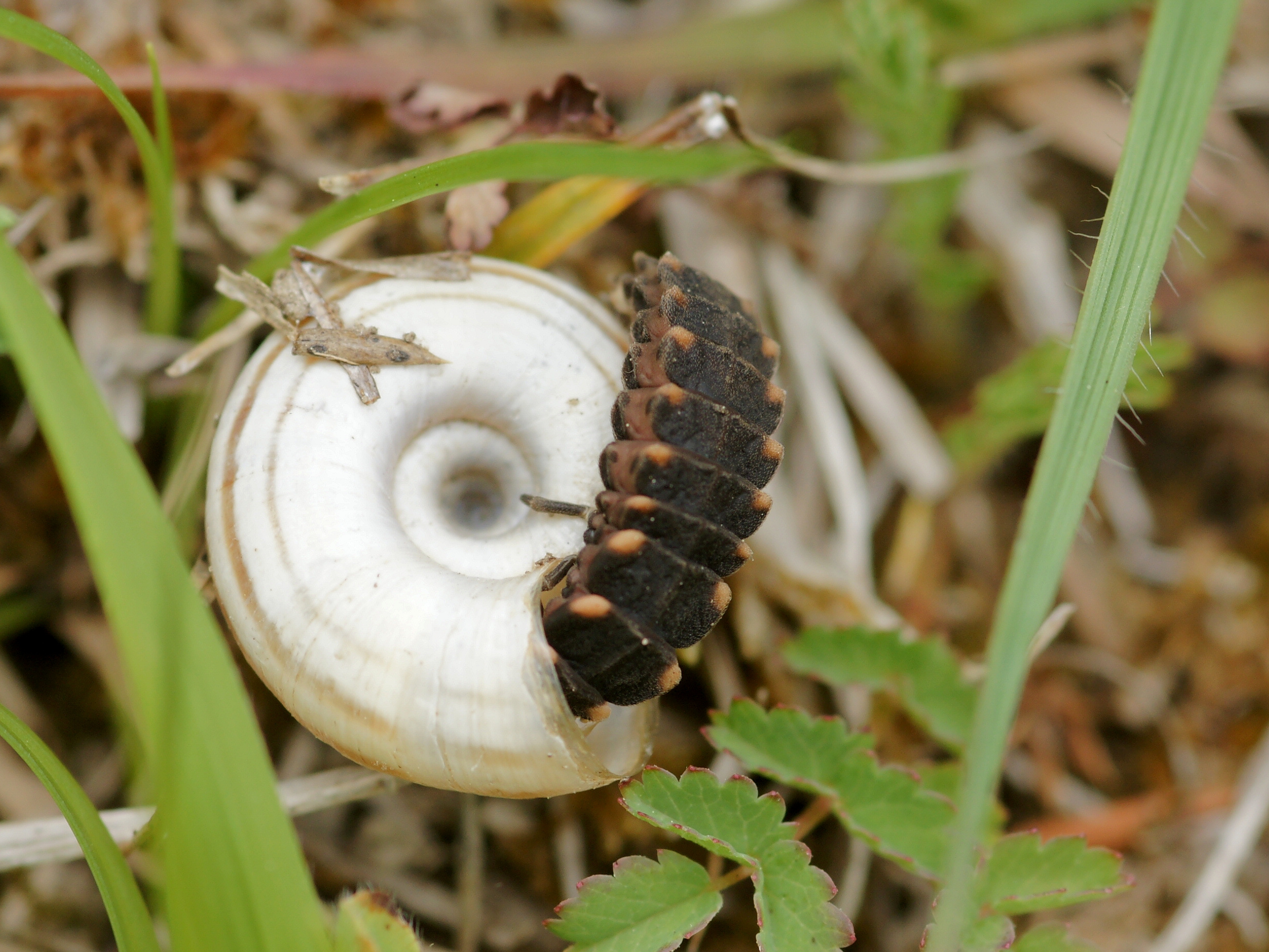 A Common Glow-worm larva hunting snails at Riez de Boffles, France.